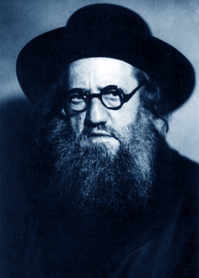 Rabbi Ya'akov Moshe Harlap, Student of Chief Rabbi Abraham Isaac Kook, head of Yeshivat Mercaz HaRav.